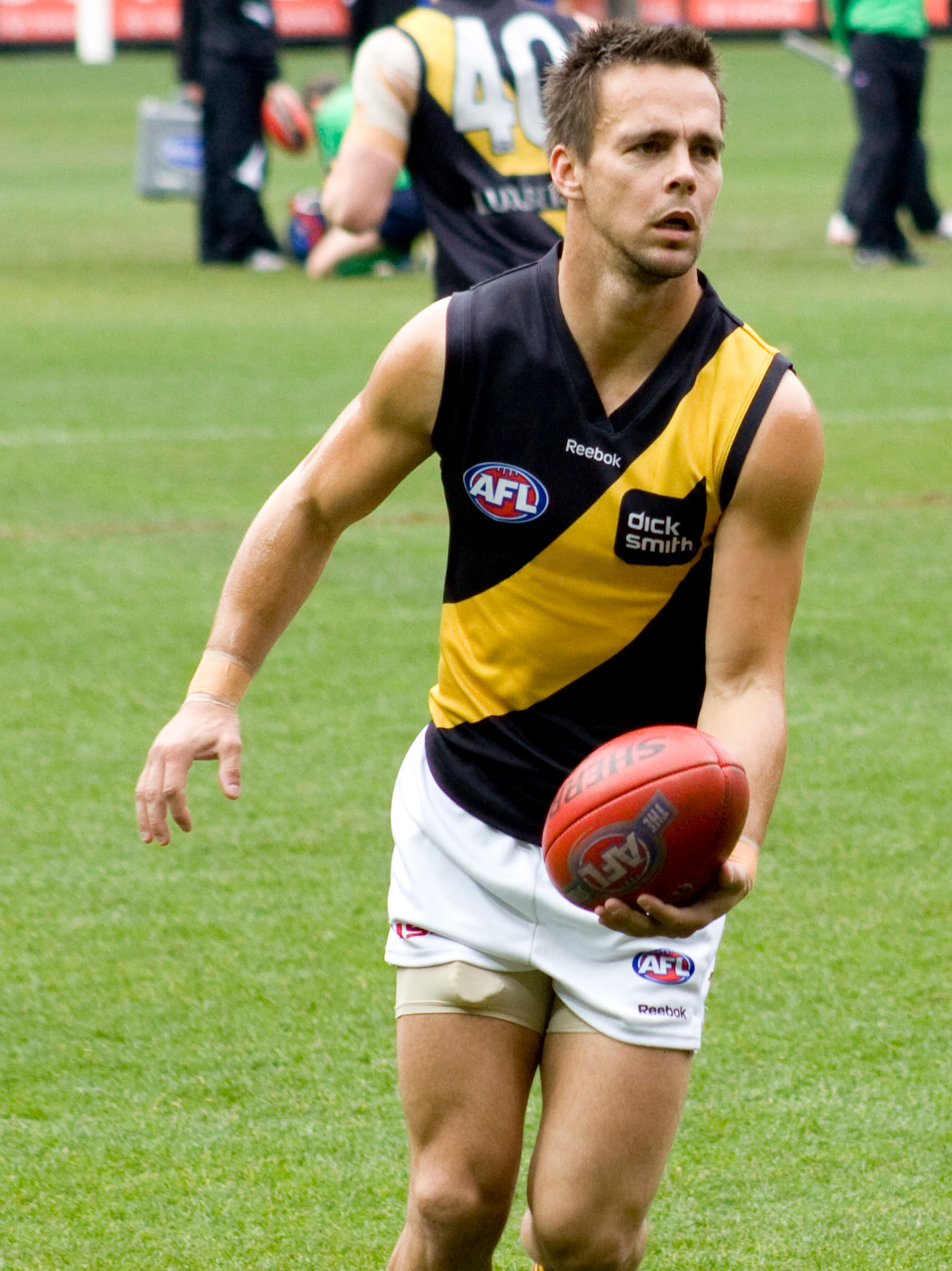 richmond vs melbourne round 18 2009